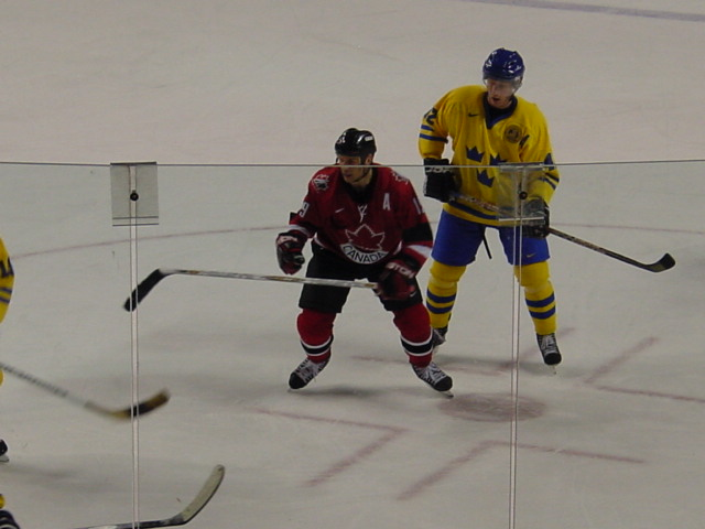 Salt Lake City 2002 Winter Olympics Flashback series featuring adventures of Dave Thorvald and Dan Funboy. Photo of Steve Yzerman, Jörgen Jönsson behind Steve Yzerman.